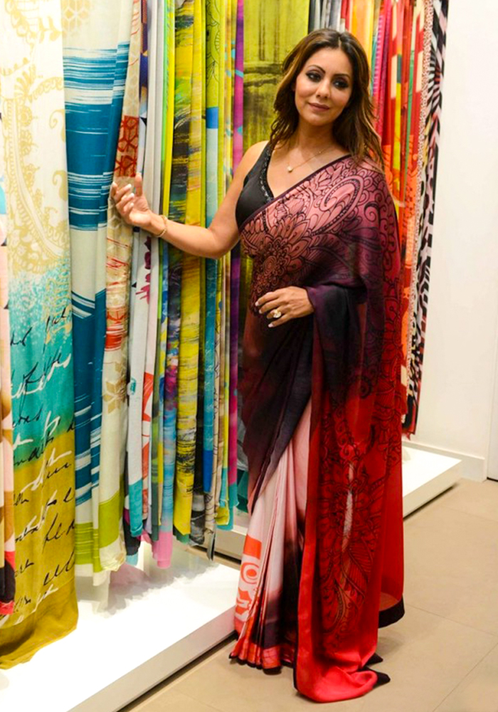 Gauri Khan graces Satya Paul's celebrations in Delhi